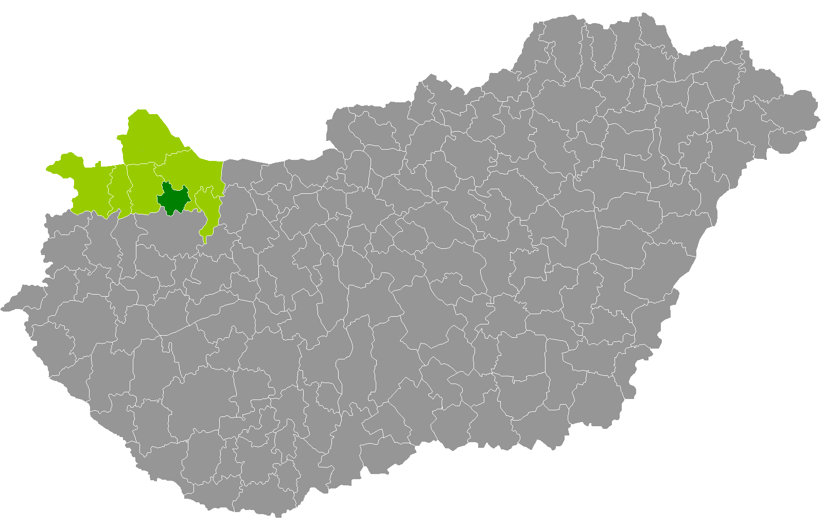 Location of Tét District, Győr-Moson-Sopron, Hungary